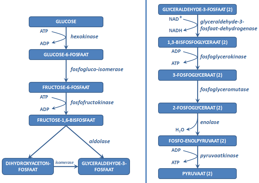 Glycolysis scheme (Dutch)